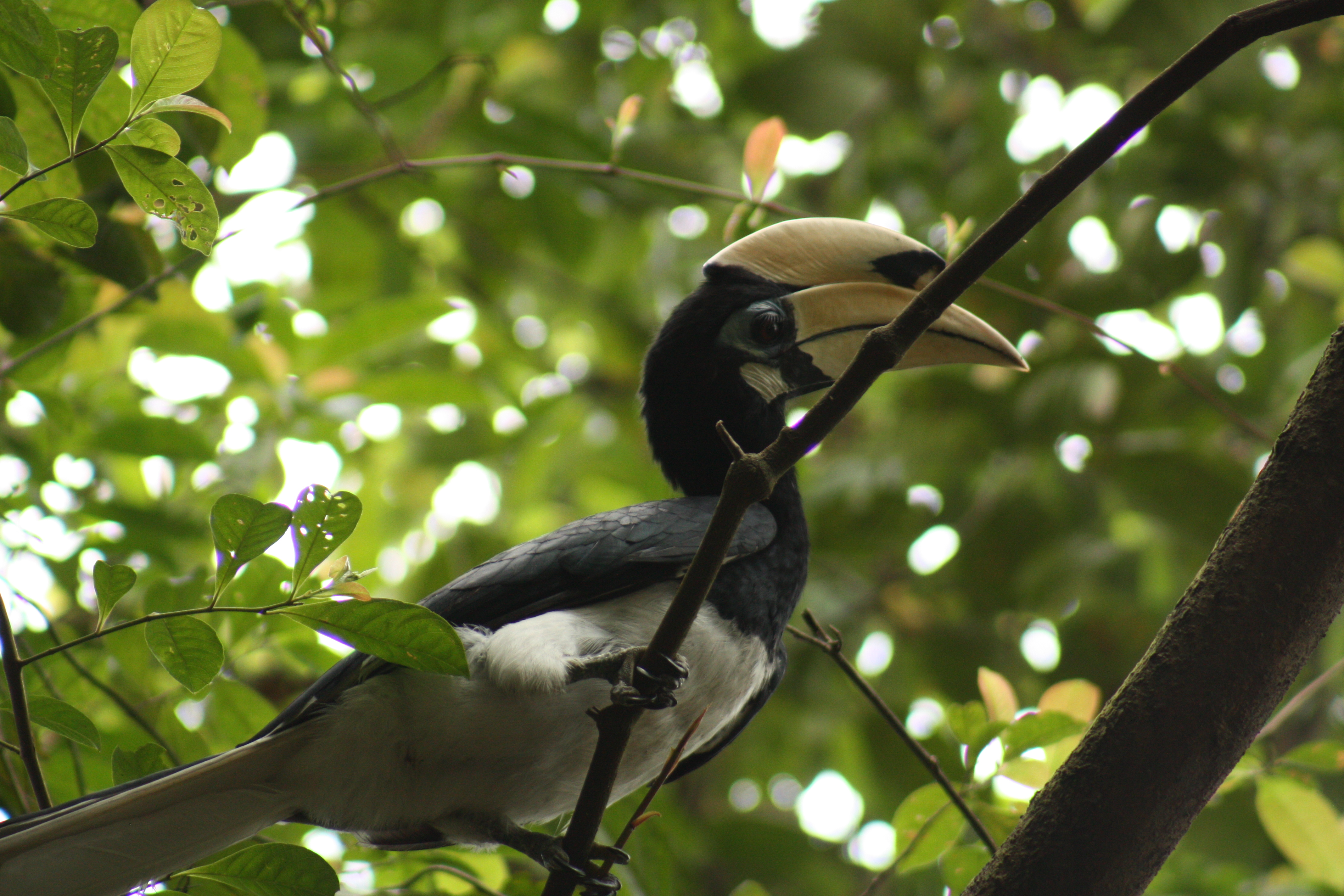 Oriental Pied Hornbill